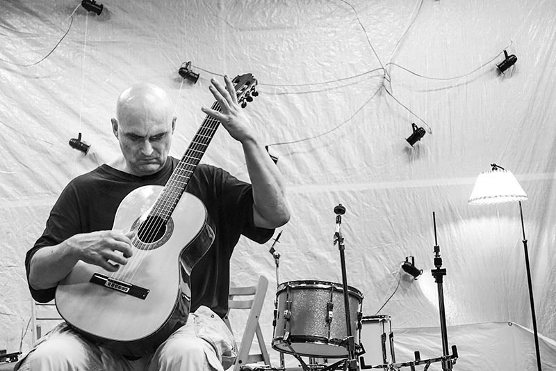 Olaf Rupp @ Aarhus Jazz Festival 2016